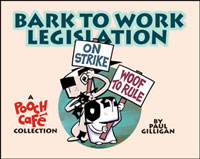 Barktowork.jpg